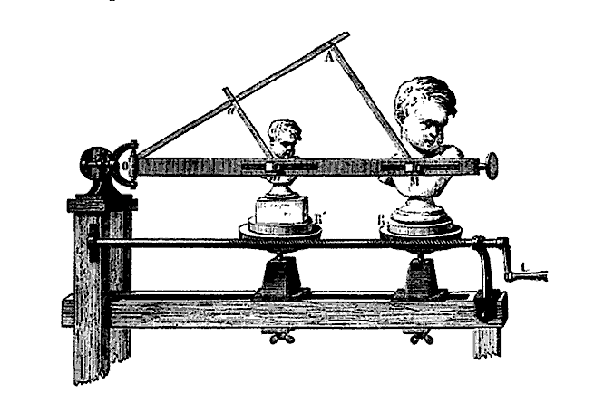 Pantograph-like machine to reproduce sculptures in different scales and materials, by Achille Collas.